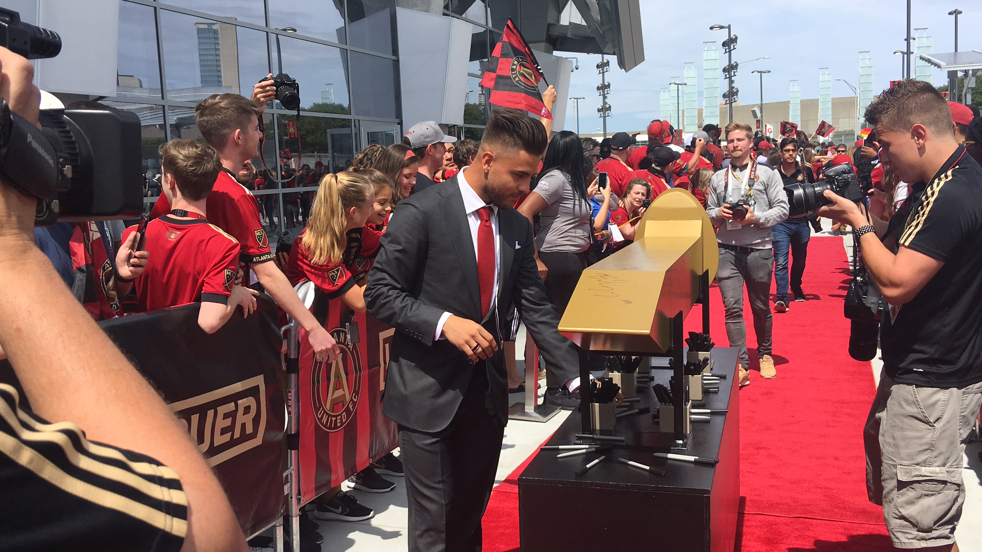 Tito Villalba signing the Golden Spike on September 10th, 2017